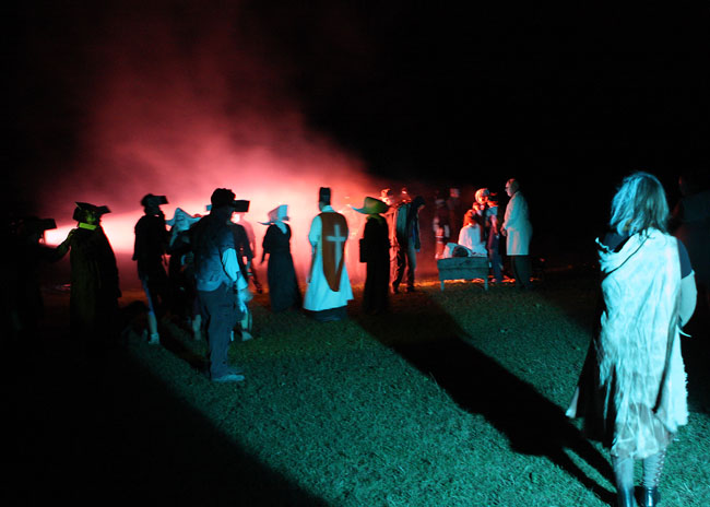 Lubo Kristek: happening Phylogenic Pretty Wet Wedding (2008)